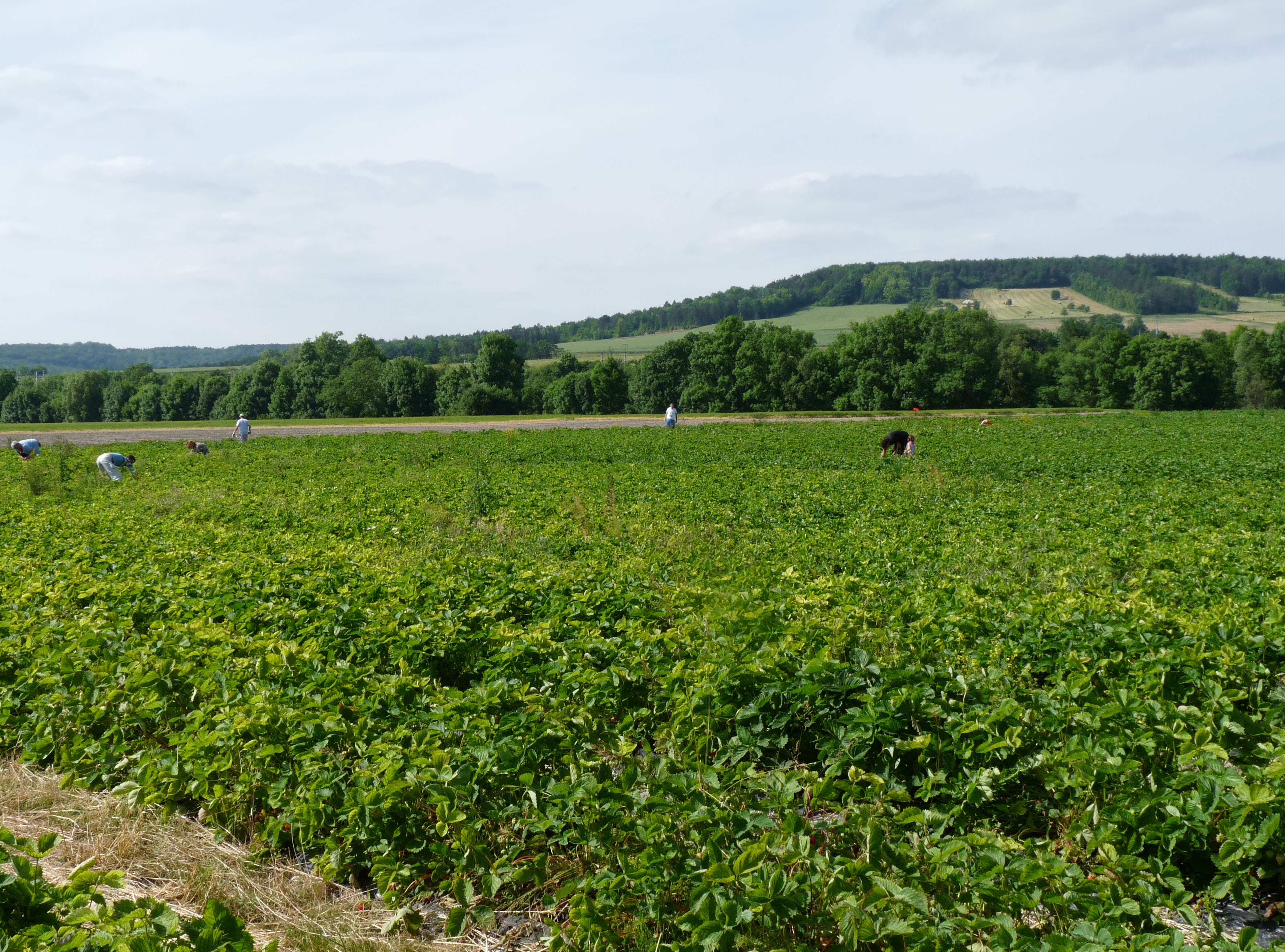 Picking strawberries in Tronville-en-Barrois, Meuse, France.